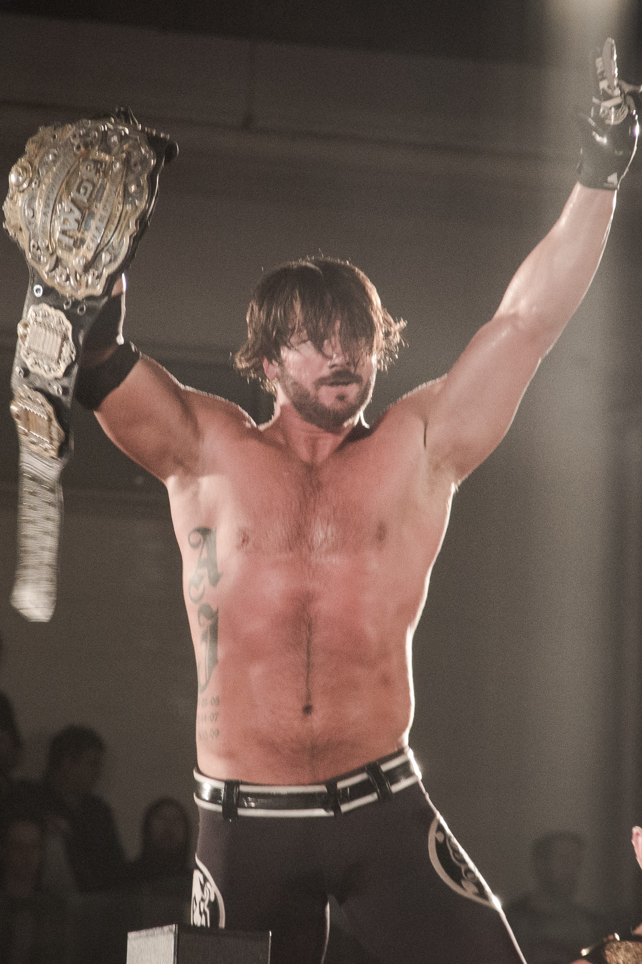 AJ Styles as the IWGP Heavyweight Champion at a Ring of Honor event in May 2014.